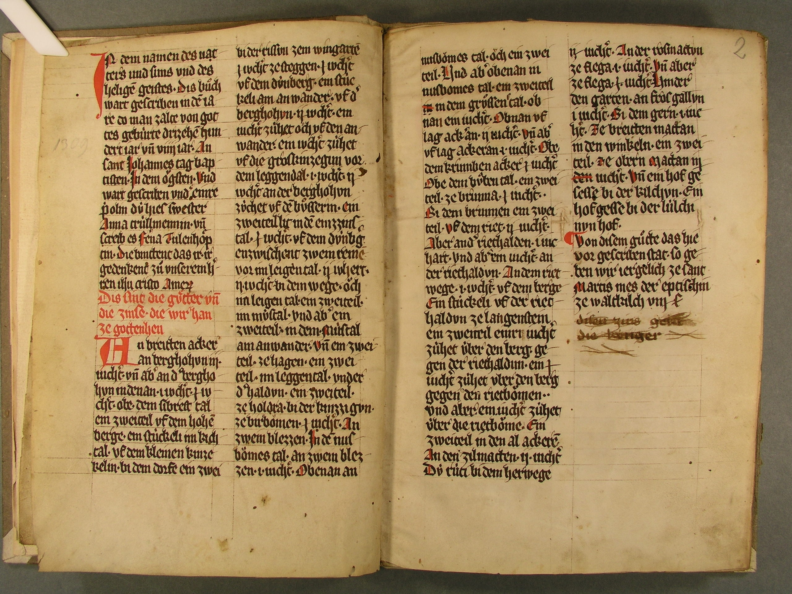 Urbarium codex from the Dominician Monastery of St. Katharina in Freiburg